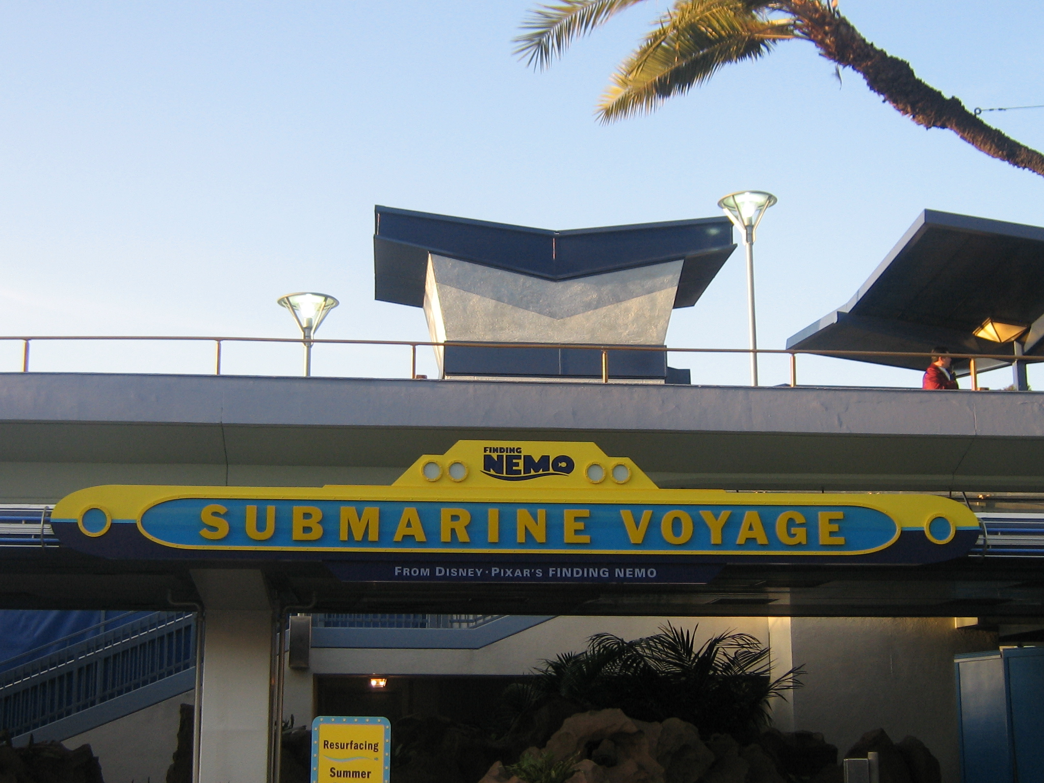 The entrance to the Finding Nemo Submarine Voyage at Disneyland.